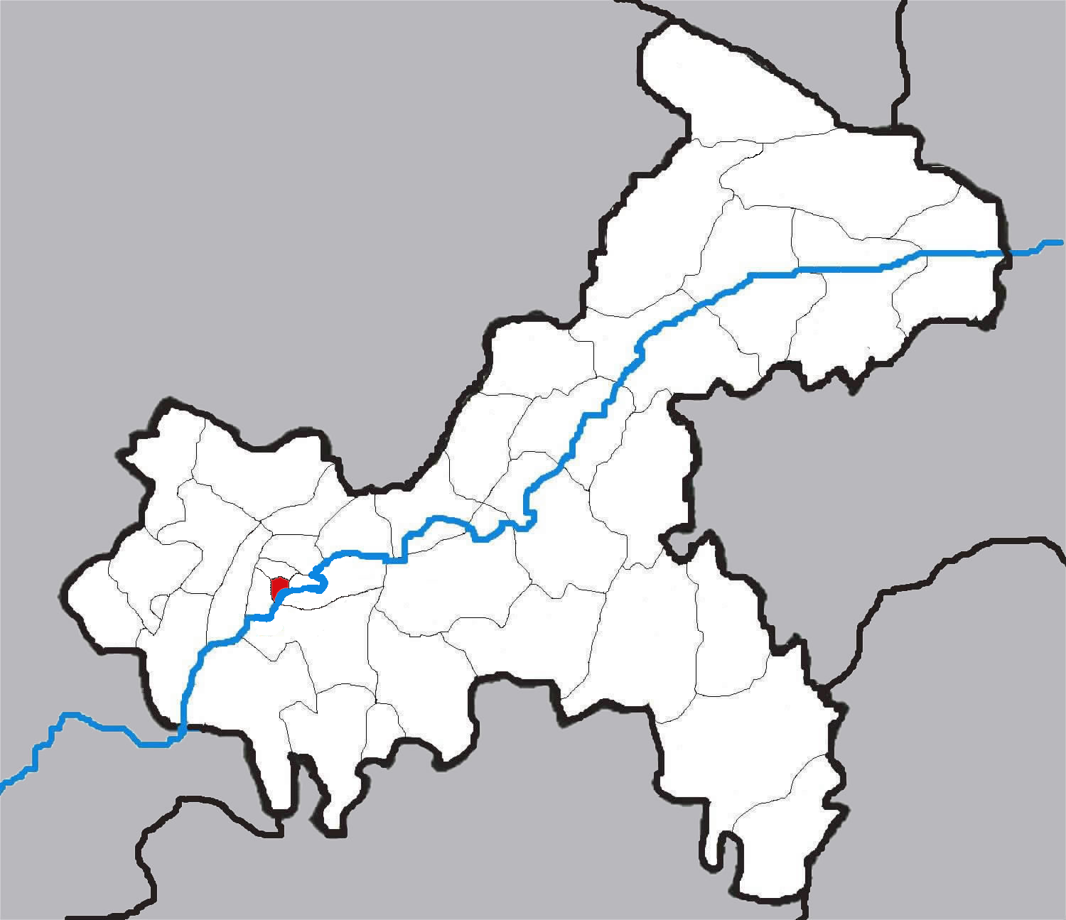 Administration maps of Chongqing, China